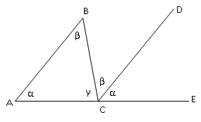 Euclides proof that adding the angles of any triangle gives 180º